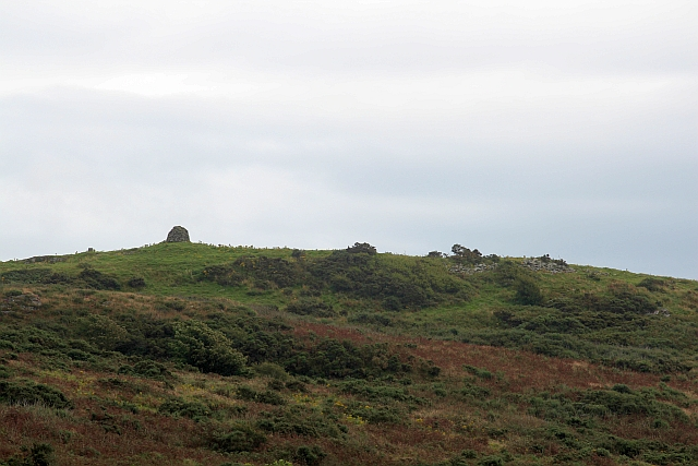 Hill fort, Fell of Barhullion, has two concentric ditches and banks with entrances in the south and north. A large modern cairn sits in the north end of the fort. Viewed from one of the Cup & Ring marked rocks in the area.NX3641 : Cup & Ring marked stone, Fell of Barhullion